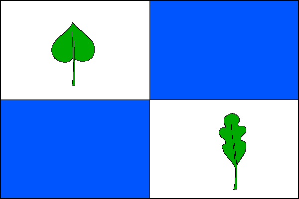 Municipal flag of Bratronice village, Kladno District, Czech Republic.